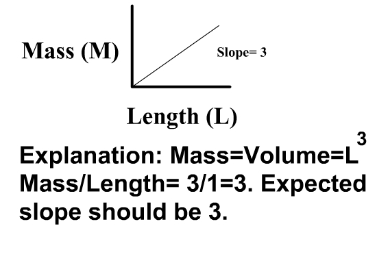 Figure describing expected slopes.